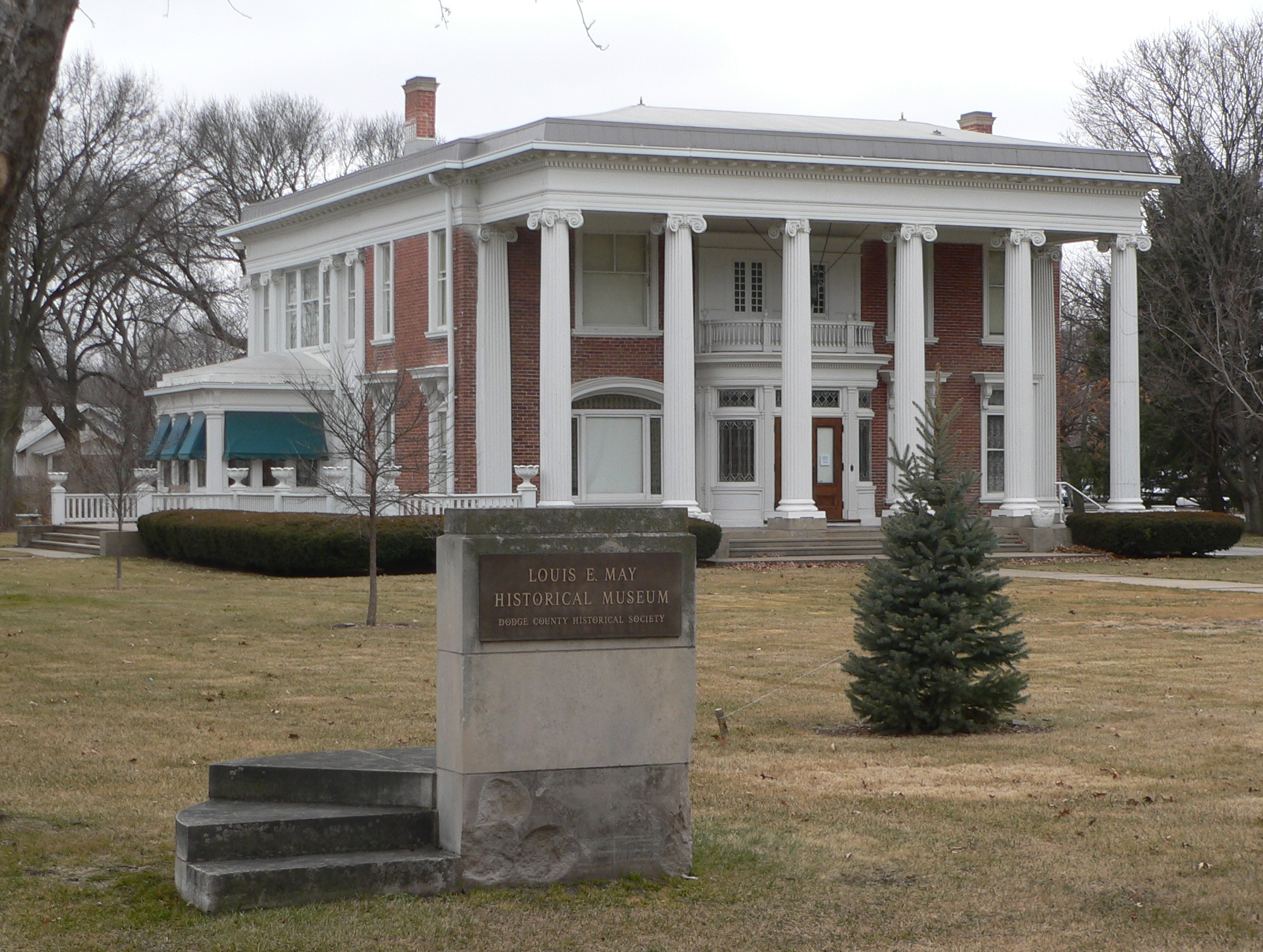 Louis E. May Historical Museum, located in the Nye House at 1643 N. Nye Avenue in Fremont, Nebraska; seen from the southeast.